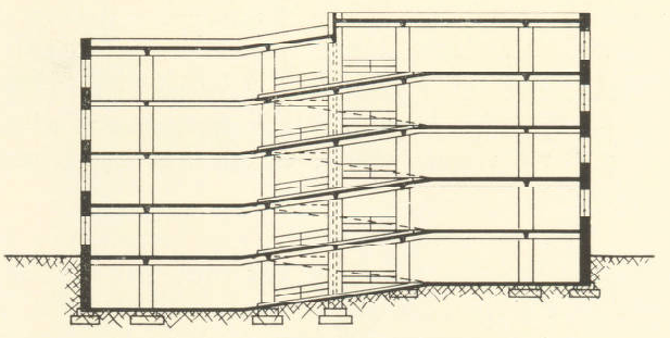 Typical cross section of a d'Humy Motoramp garage.